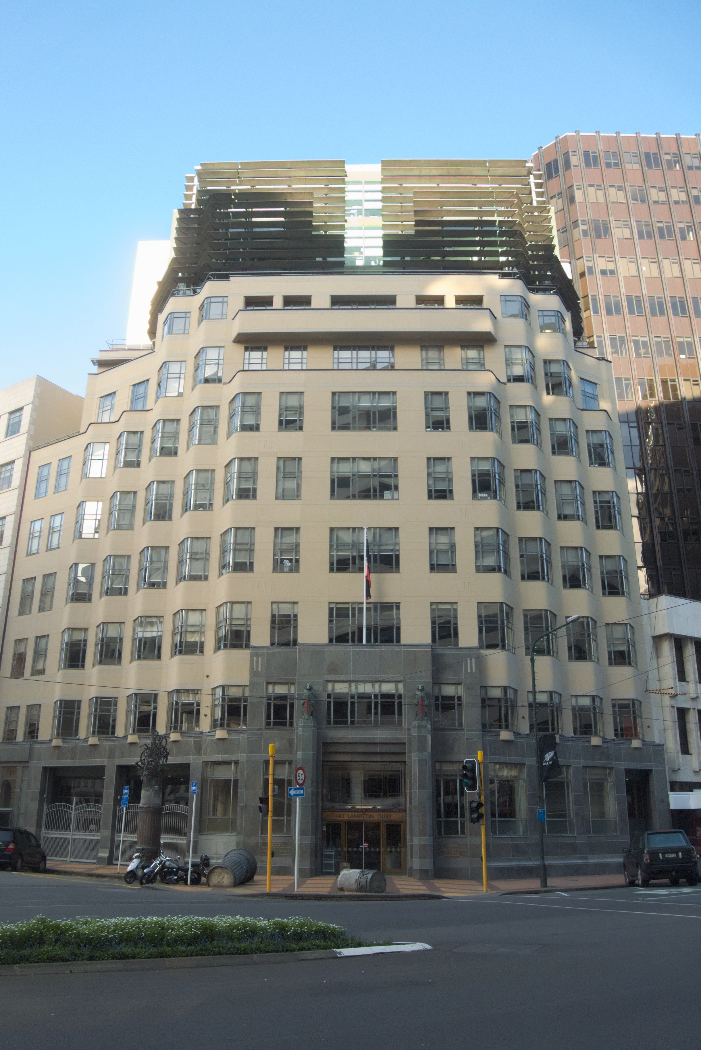 143 Lambton Quay in Wellington houses Te Puni Kōkiri (Ministry of Māori Development).